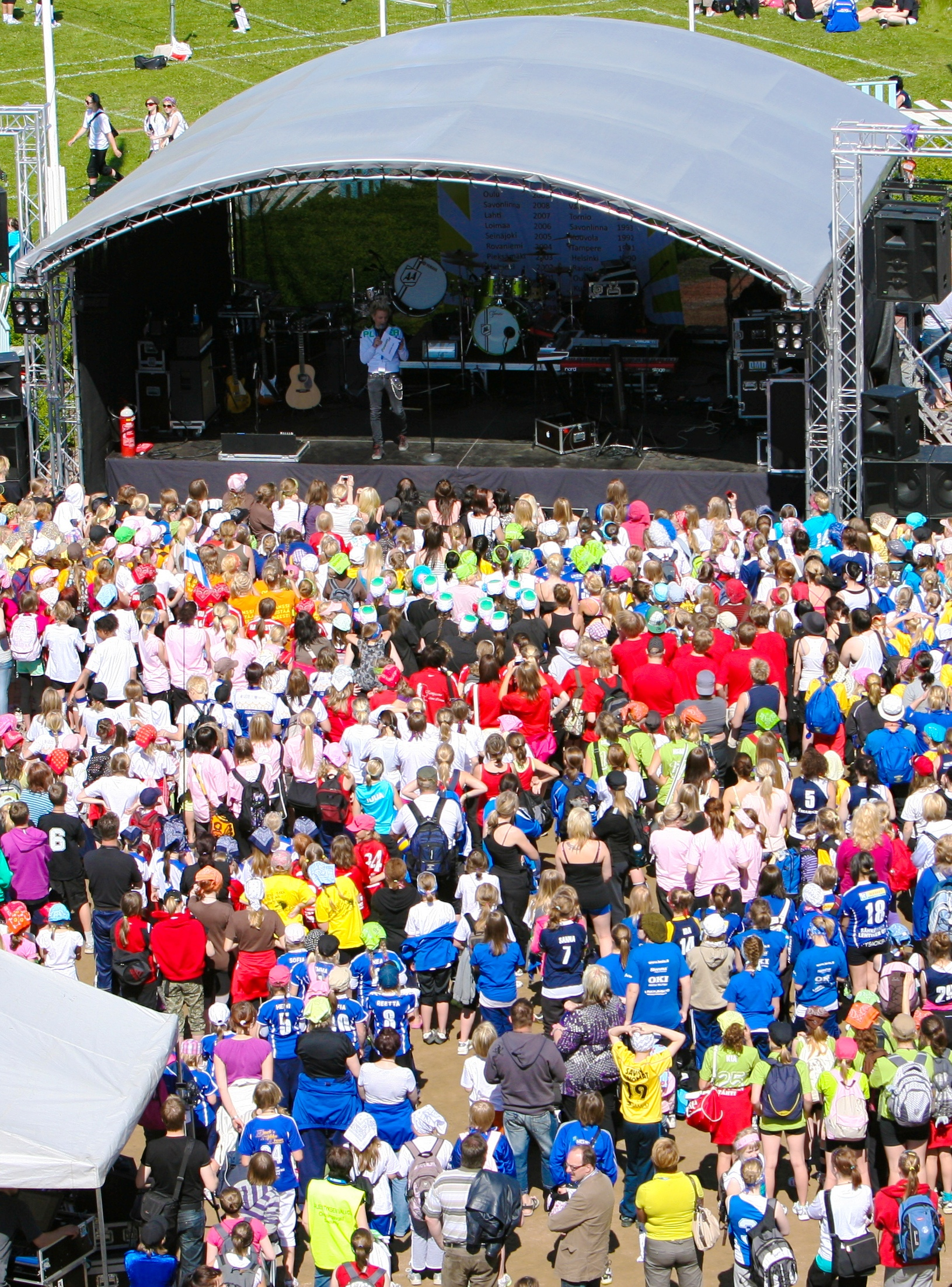 Power Cup event 2010